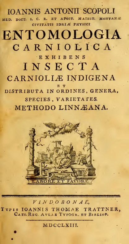 Frontispiece of Giovanni Antonio Scopoli's 1763 Entomologia Carniolicae